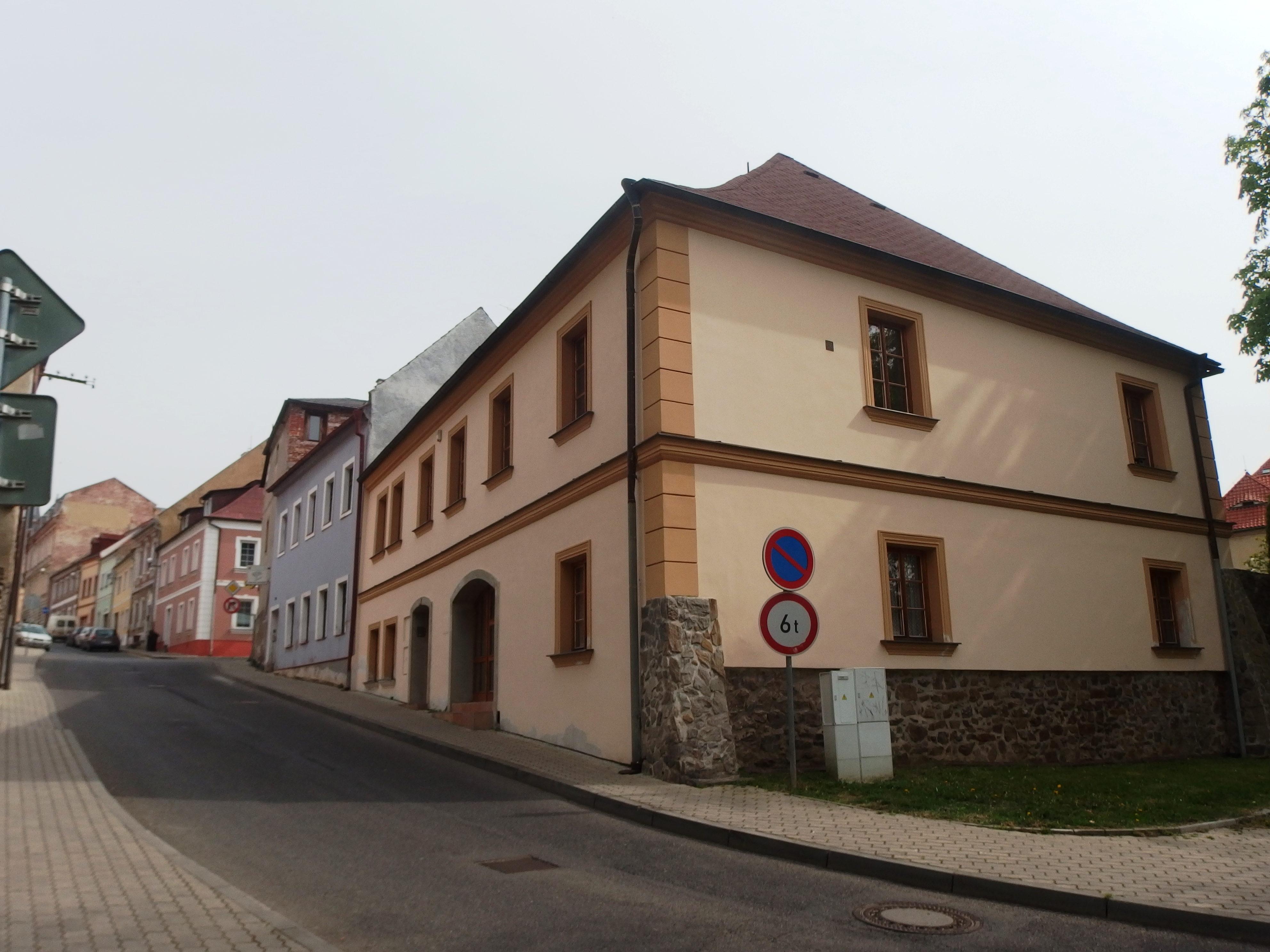 Kadaň, Chomutov District, Czech Republic. Čechova street.